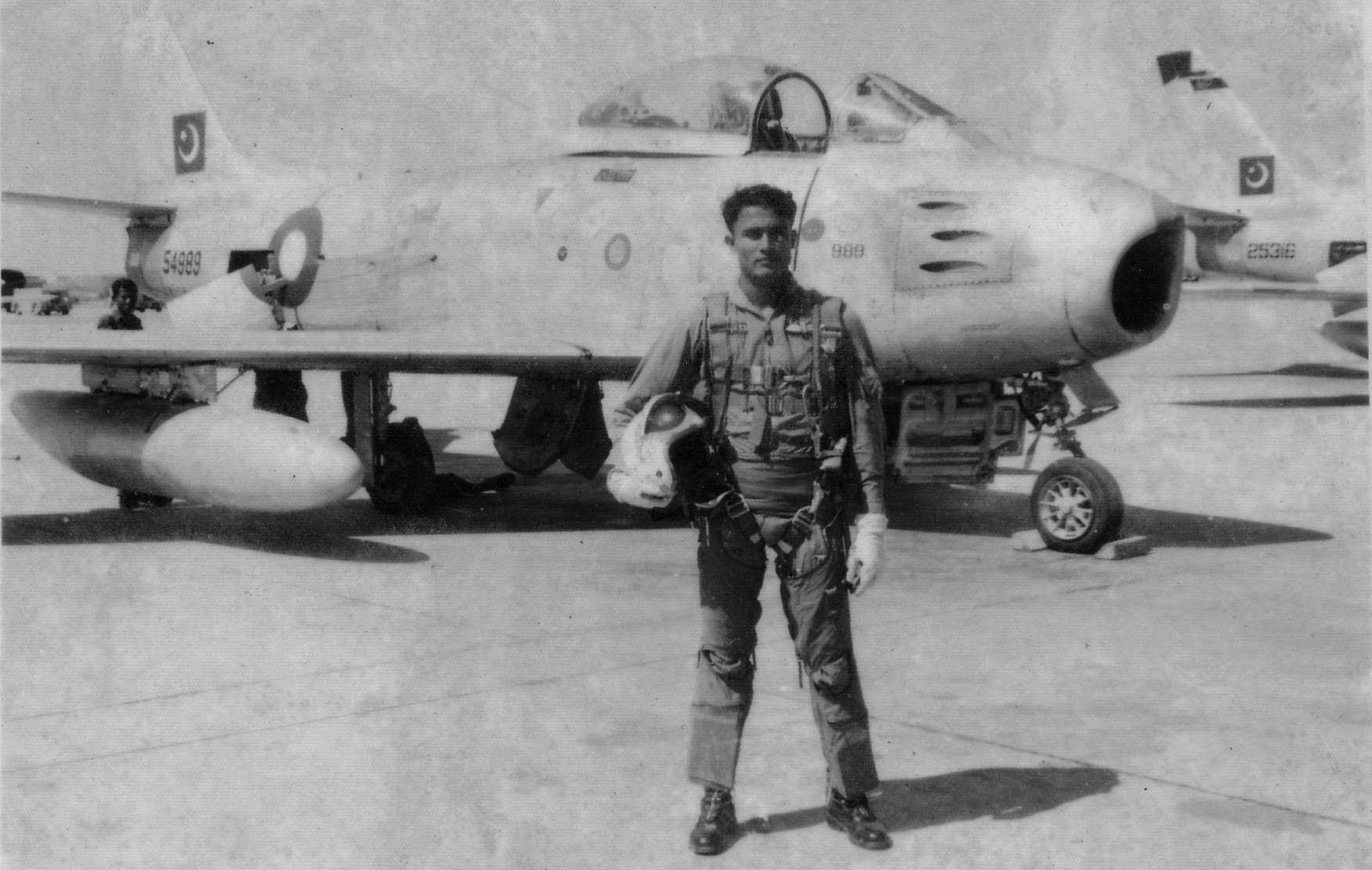 Waleed Ehsanul Karim in front of a Pakistan Air Force North American F-86F Sabre.